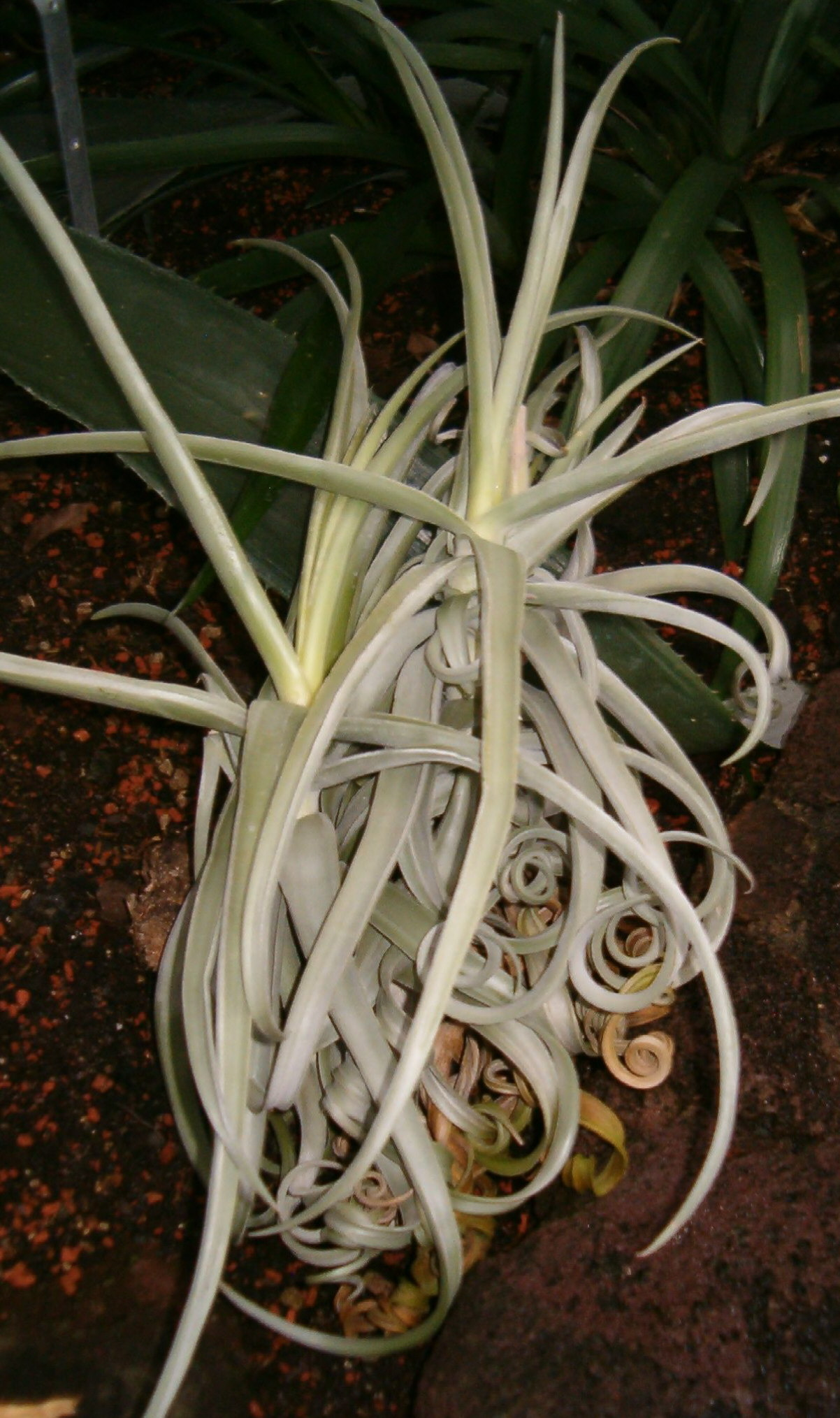 Location: Botanical Gardens Berlin Dahlem